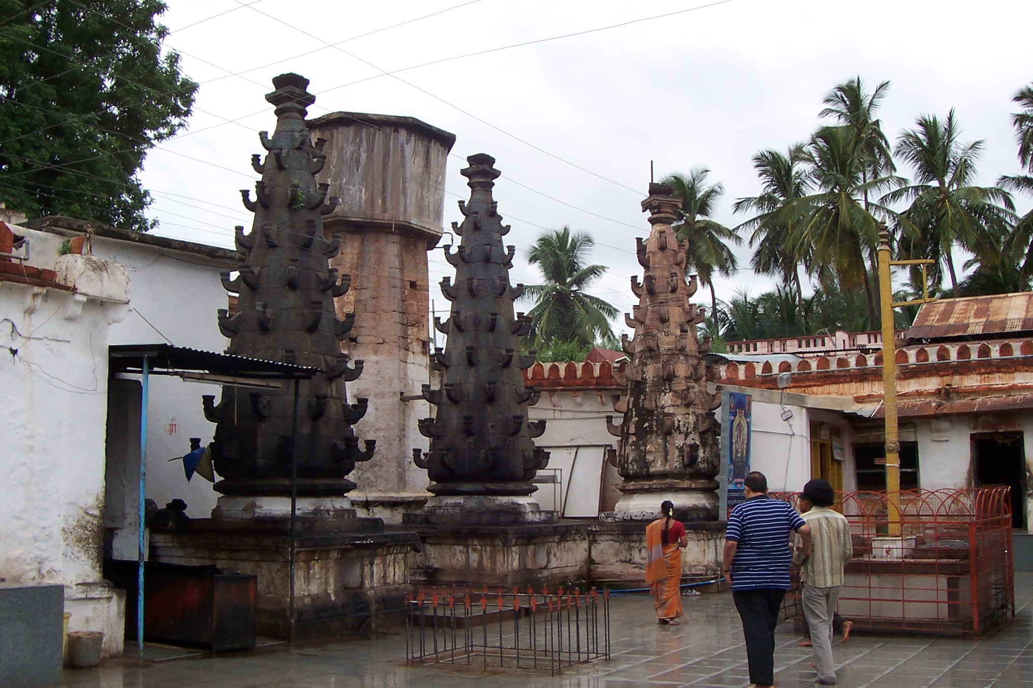 Courtyard of the Banashankari temple with ventilation towers or deepa stamba